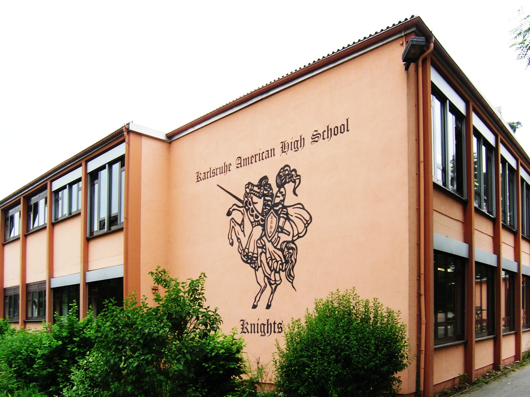 Former Karlsruhe American High School for children of members of the US Army based at Karlsruhe. Now Heisenberg-Gymnasium.